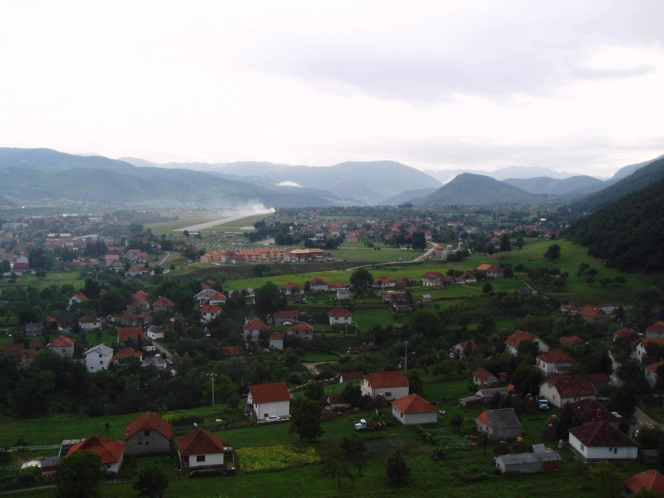 panorama